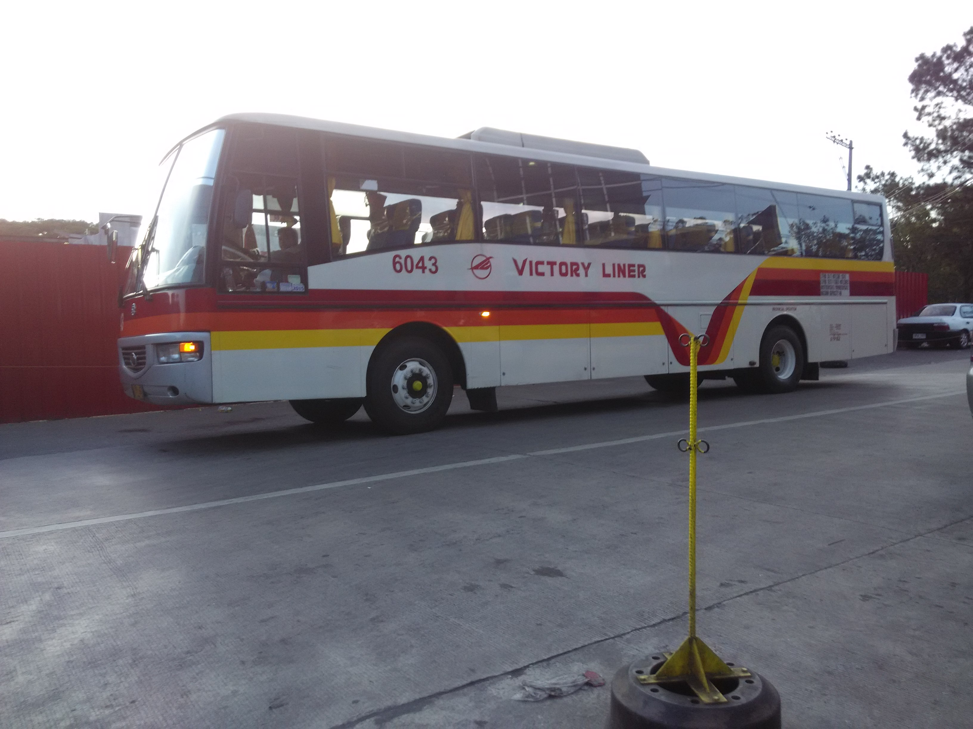 A Victory Liner bus in Baguio City